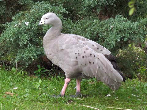 Cape Barren Goose in Prospect Park Zoo.